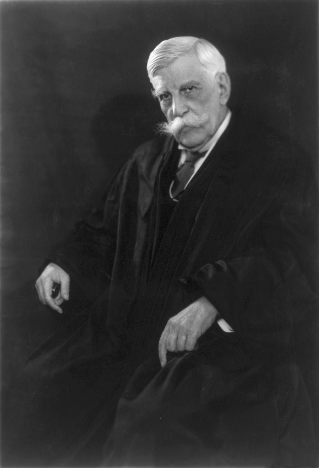 Oliver Wendell Holmes, Jr., circa 1930. Edited photograph from the Library of Congress Prints and Photographs Division.